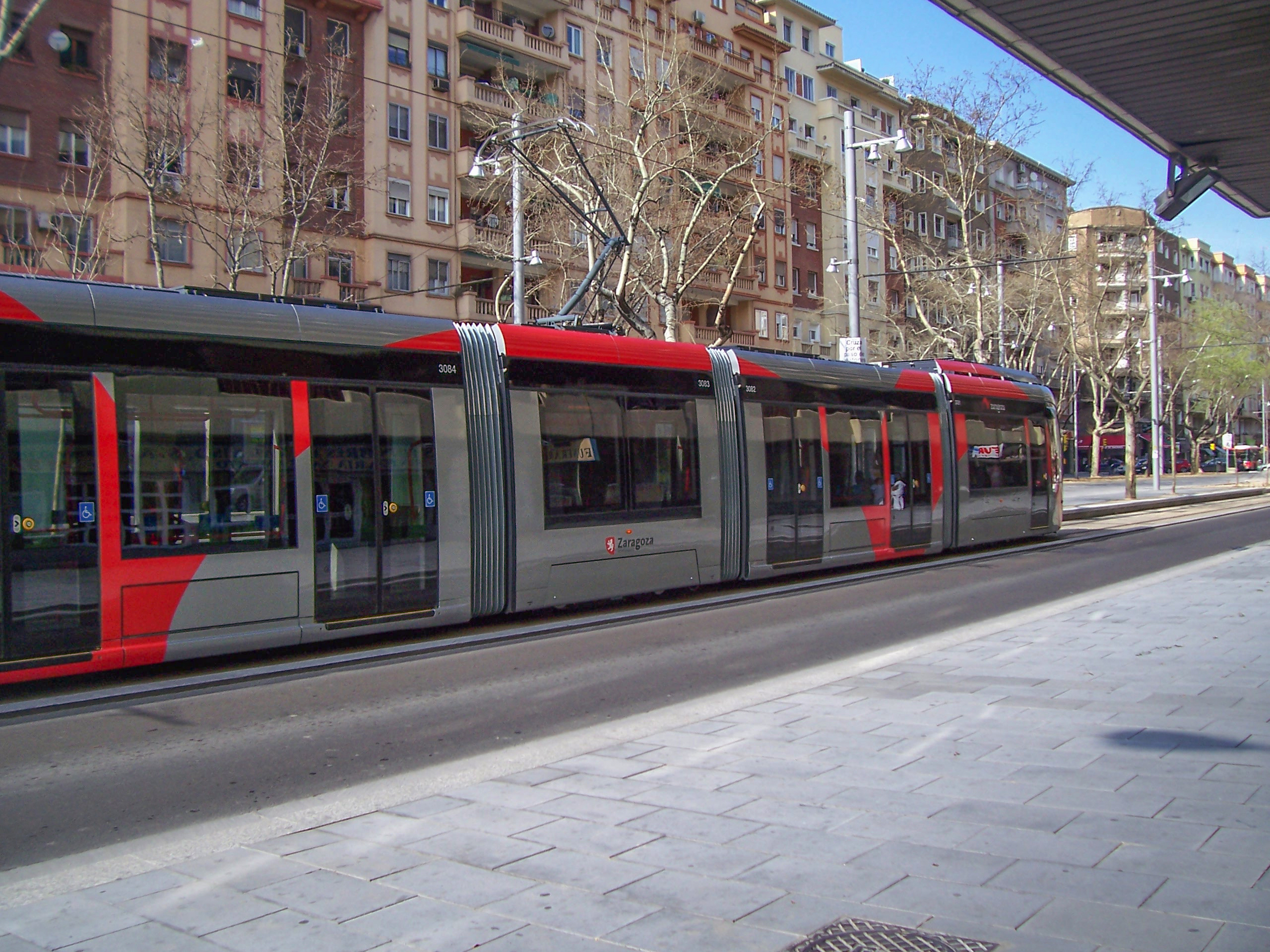 Photo of an Urbos 3 tram in Zaragoza